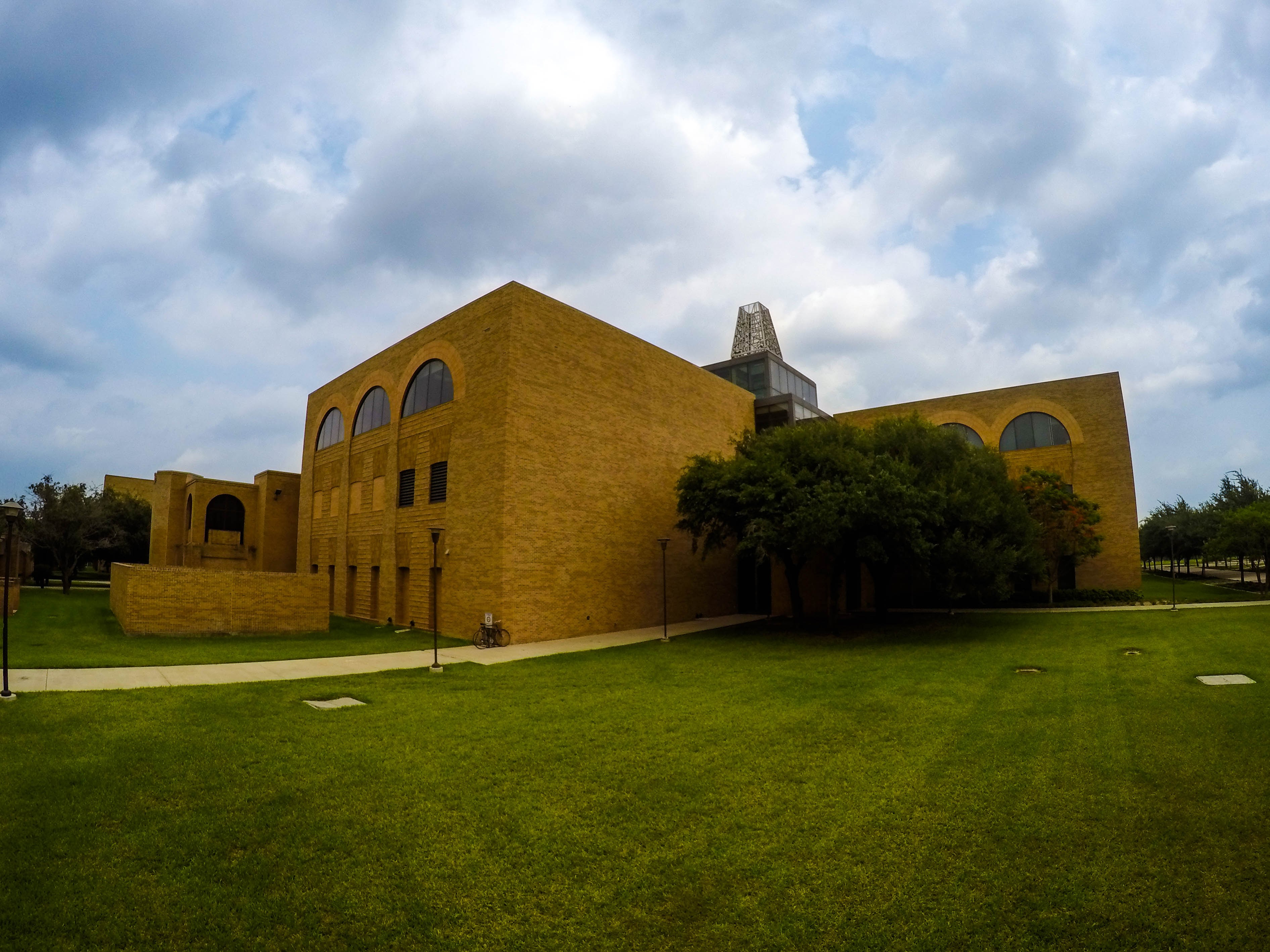 Picture of the East entrance of the UTRGV College of Education Complex at the Edinburg Campus